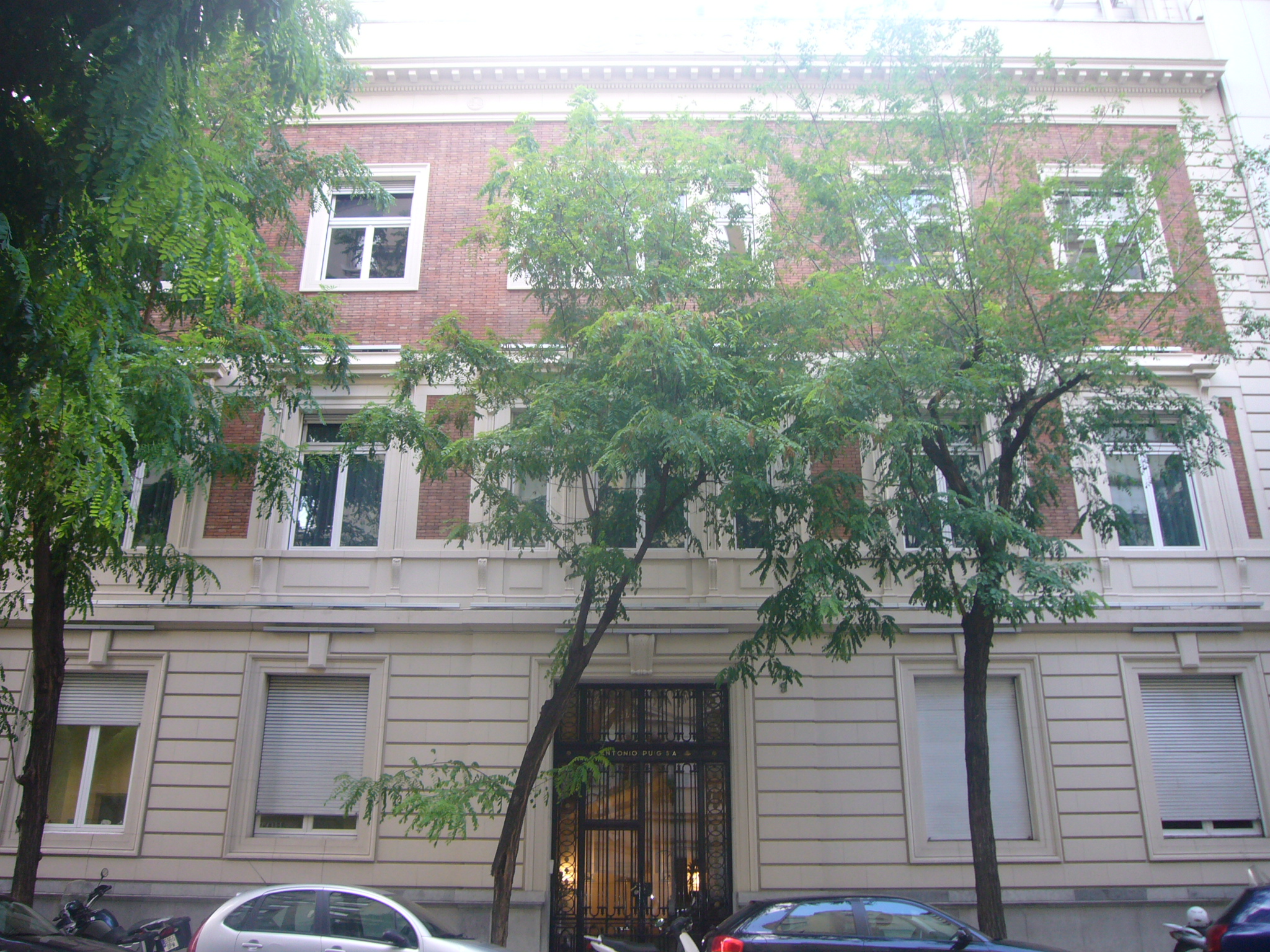 Head office of the Puig beauty and fashion group, at Travessera de Gràcia, 9, Barcelona